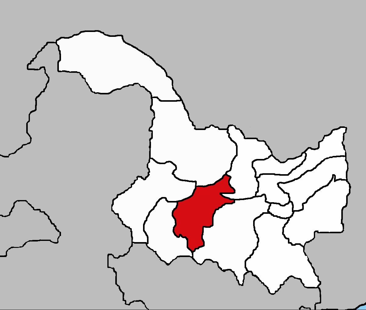 Map of Suihua Prefecture — Heilongjiang Province, China